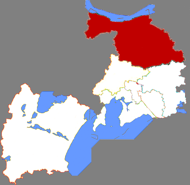 Location of Jiangyin county-level city in Wuxi city, China